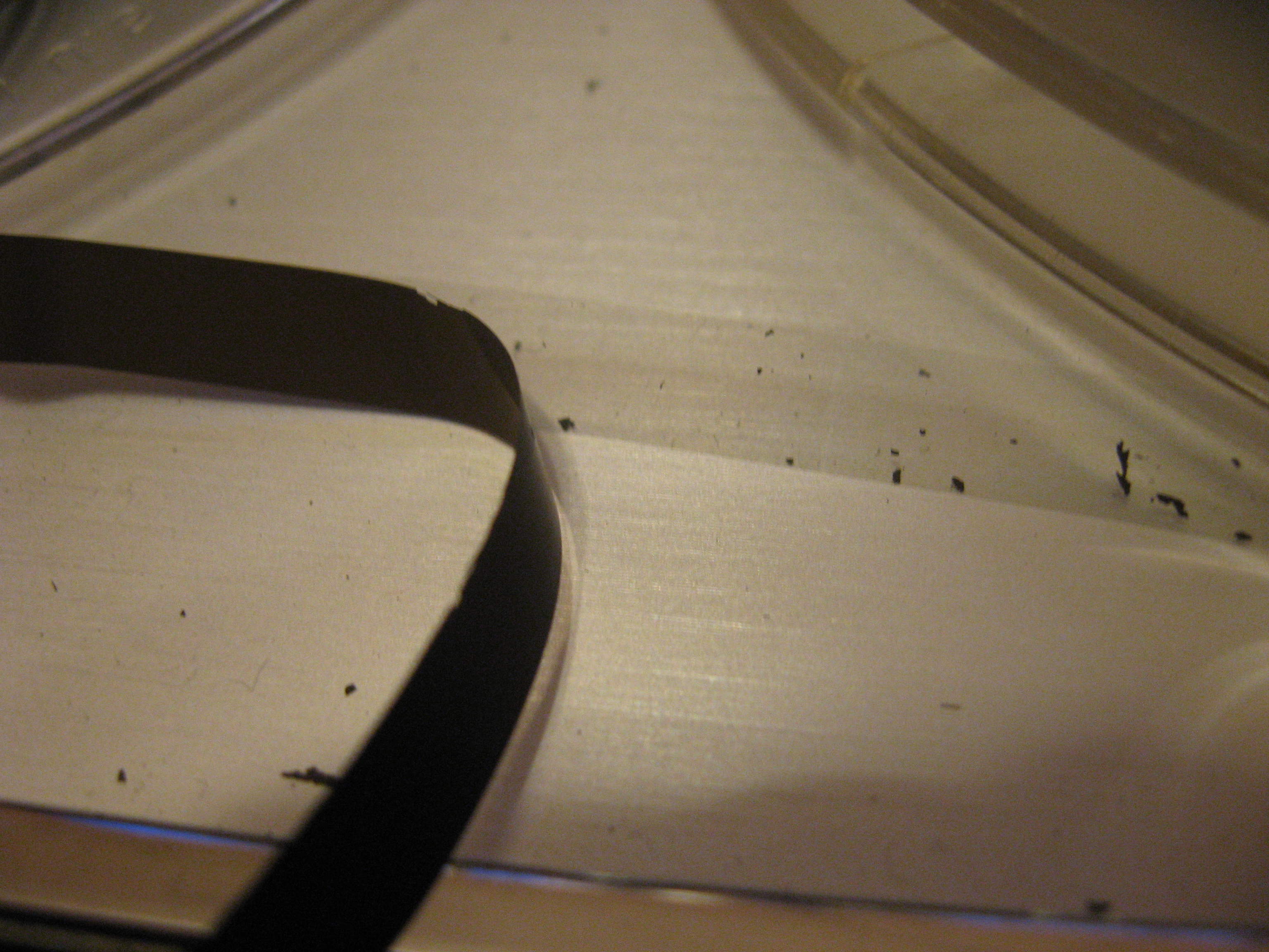 A magnetic tape which has been so affected by shedding that the oxide, which holds the magnetic information (brown), has completely come away from the polyester base (clear).